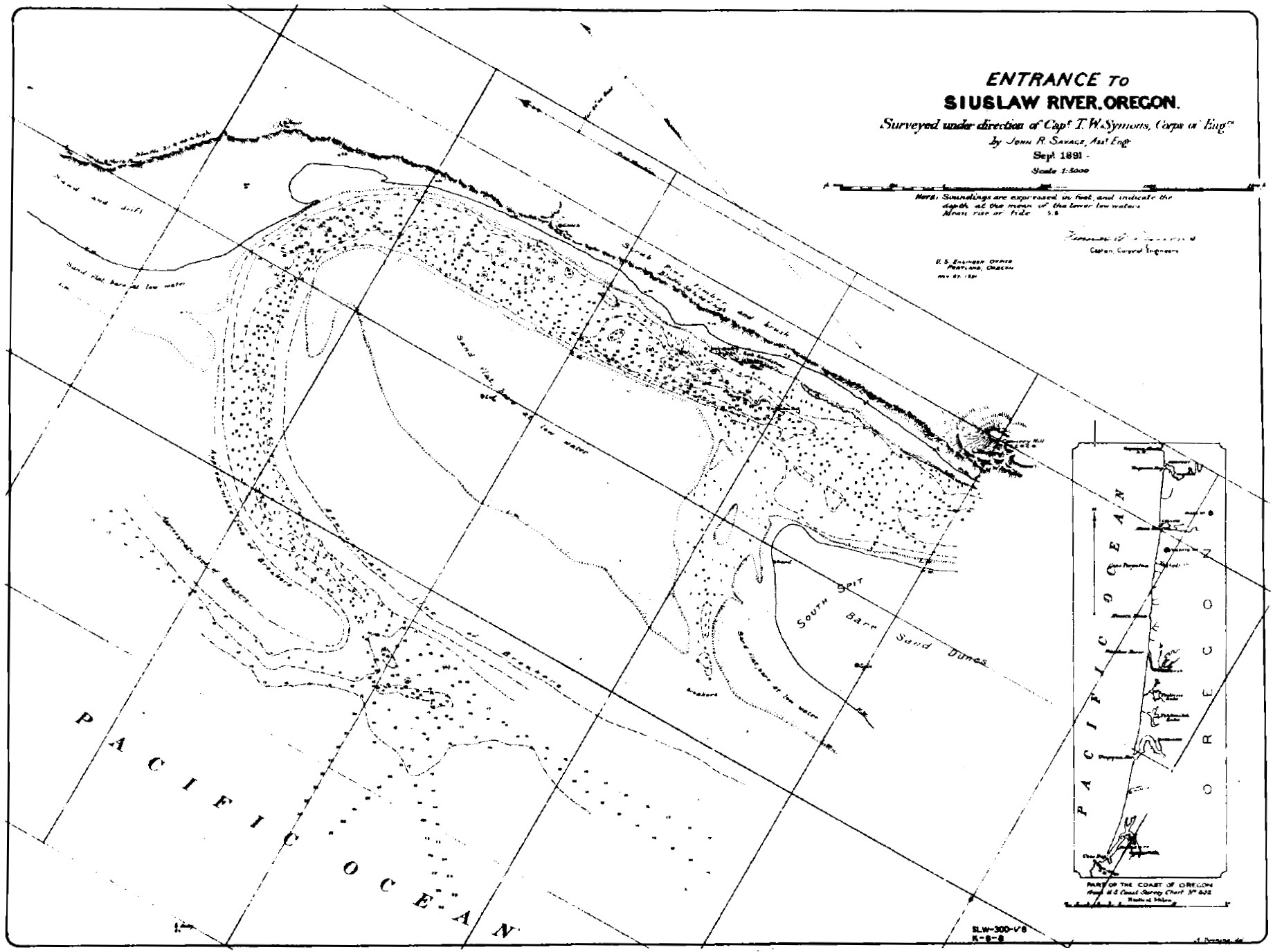 1891 survey of Siuslaw River at entrance to Pacific Ocean, graphing depth soundings and showing multiple channels